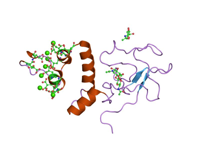 Cartoon representation of the molecular structure of protein registered with 1nl1 code.